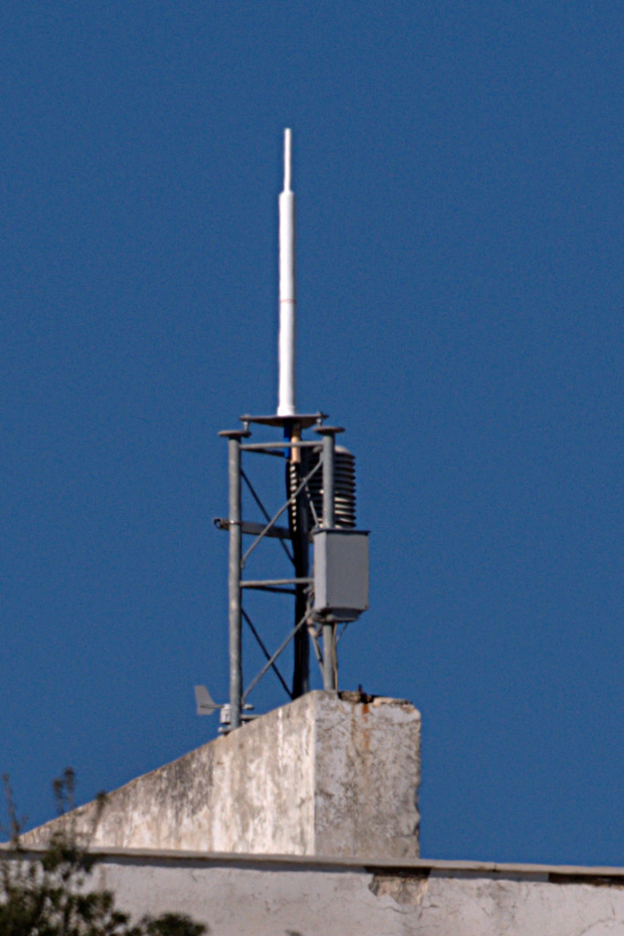 The UHF transmitting antenna of DORIS_(geodesy) DNO ground station (beacon) at Dionysos, Greece. DORIS beacons transmit to the satellites on 2036.25 MHz and 401.25 MHz.